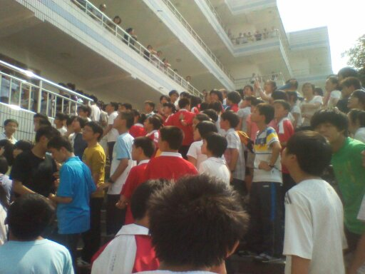 Yichang foreign language school ,students gathering